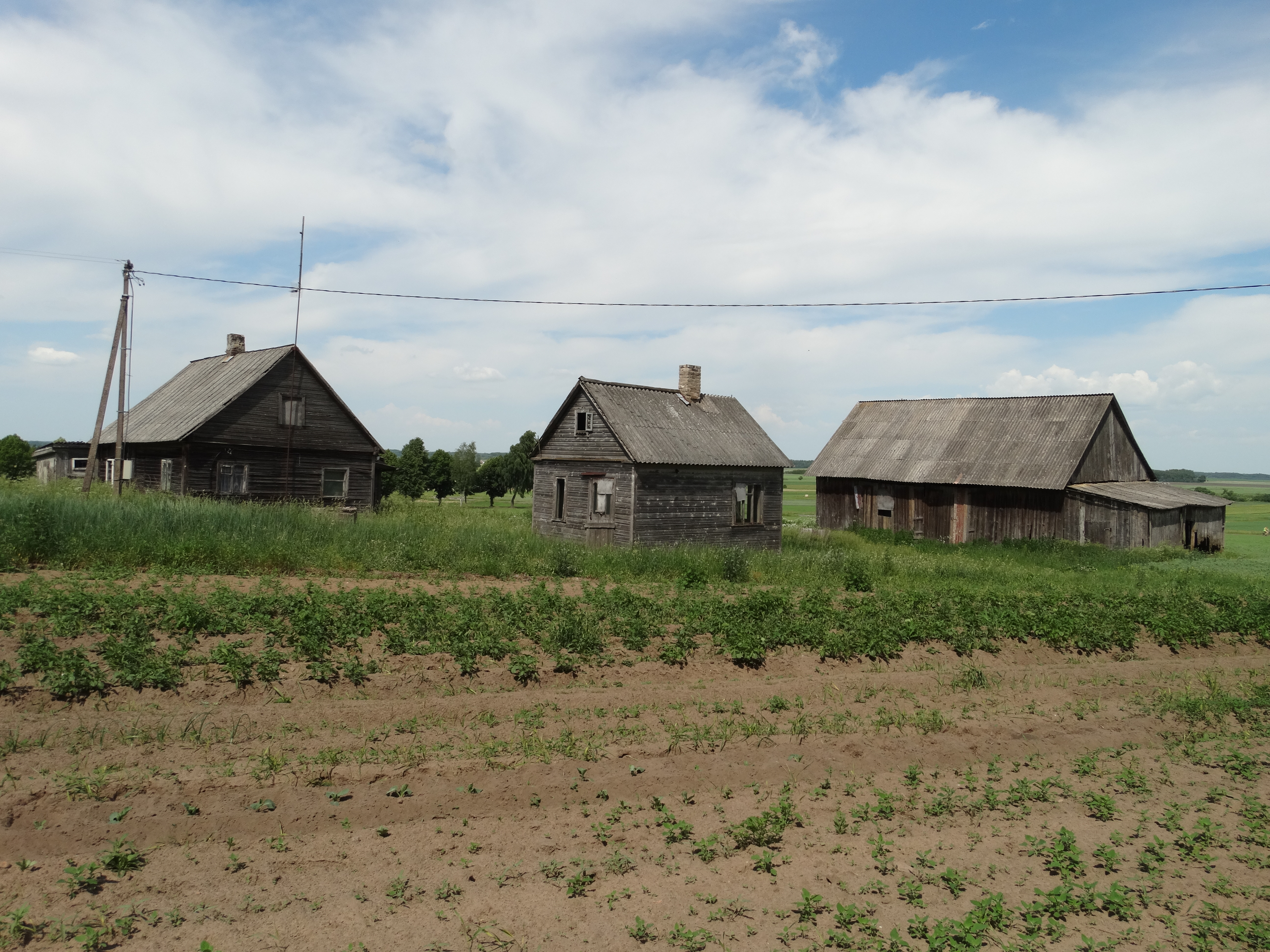 Pilkalnis, by Betygala, Lithuania